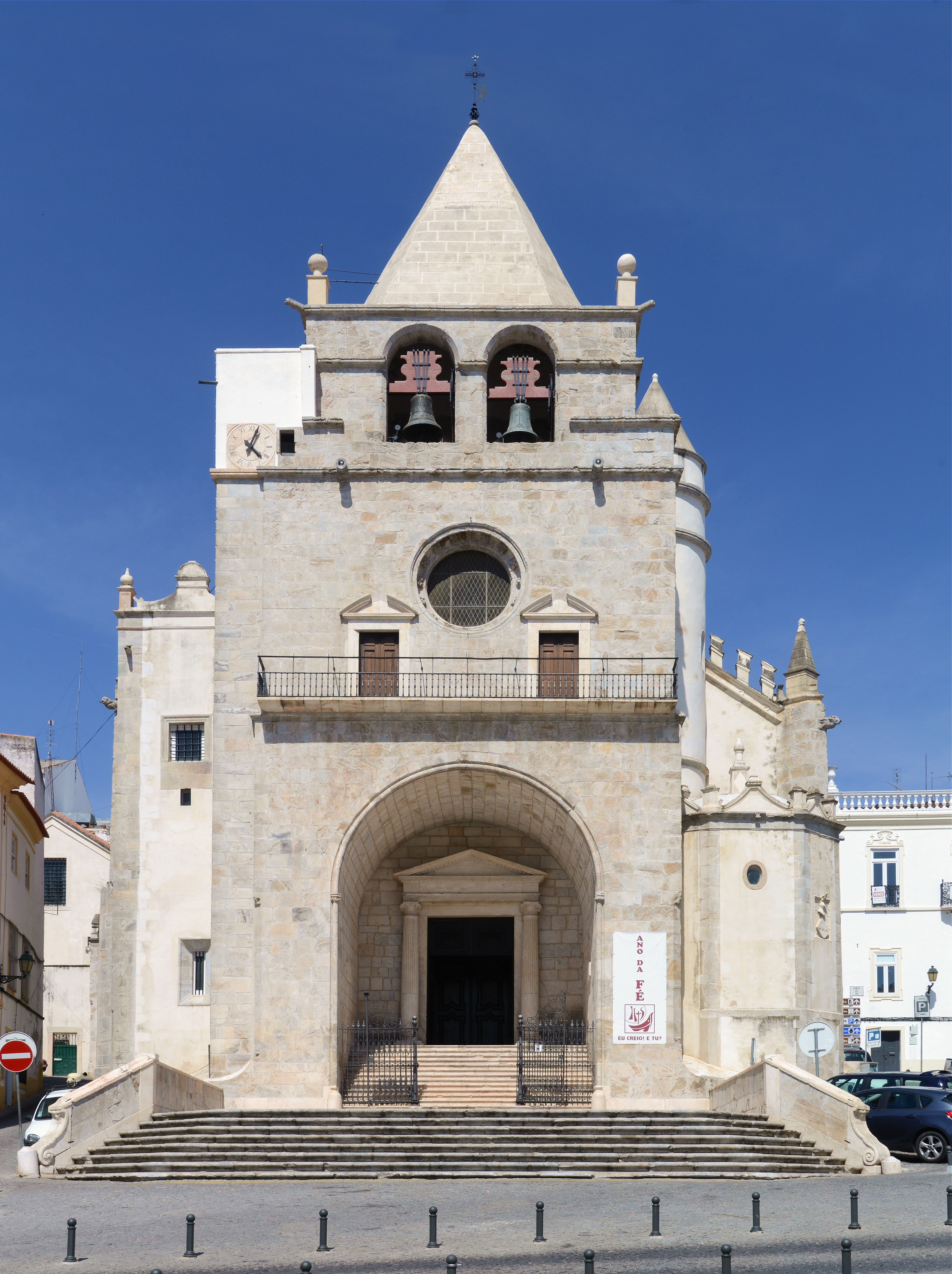 Church of Nossa Senhora da Assunção' (Our Lady of the Assumption), Elvas, Portugal